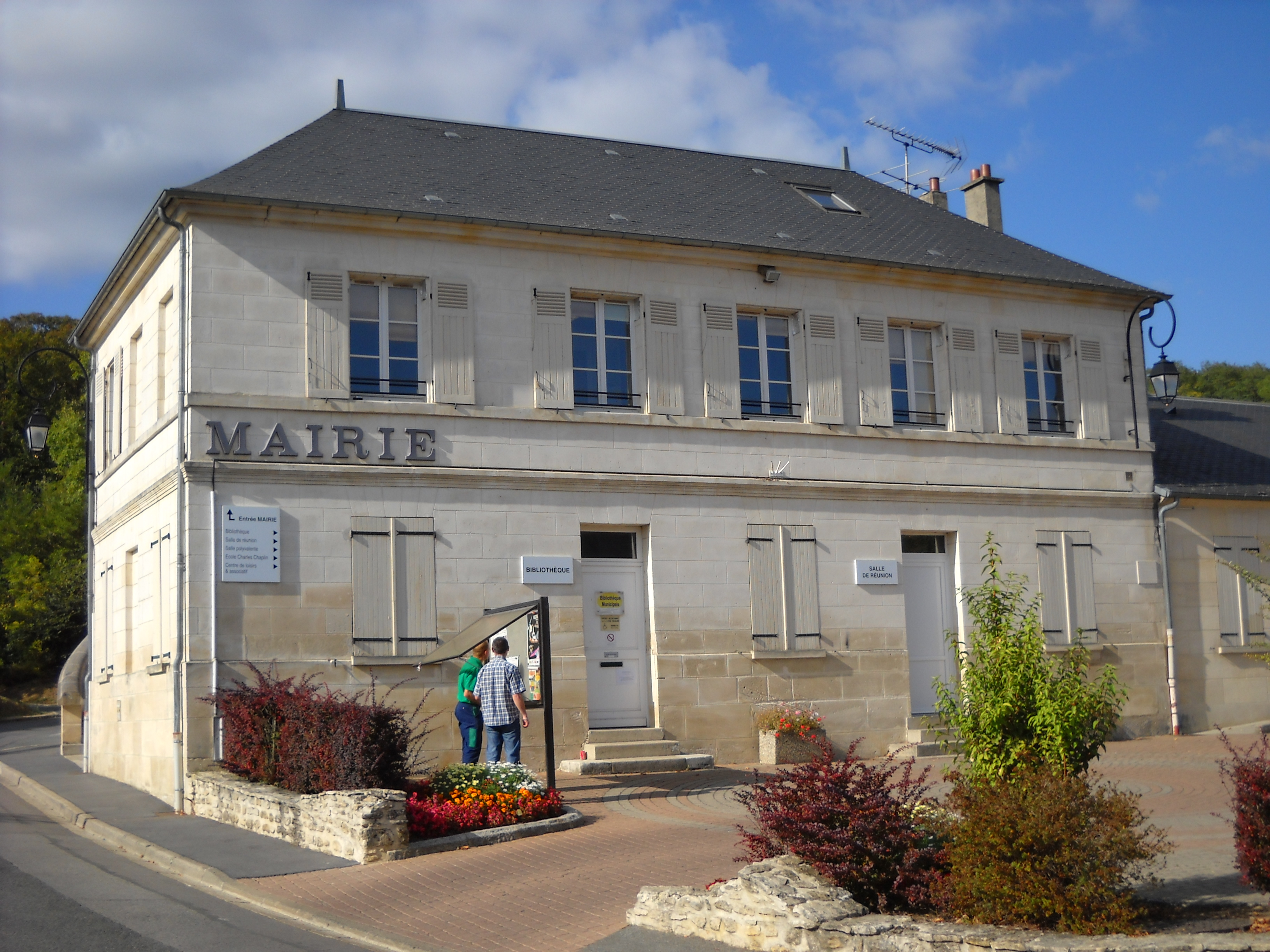 The town hall of Neuilly-sous-Clermont, Oise, France.